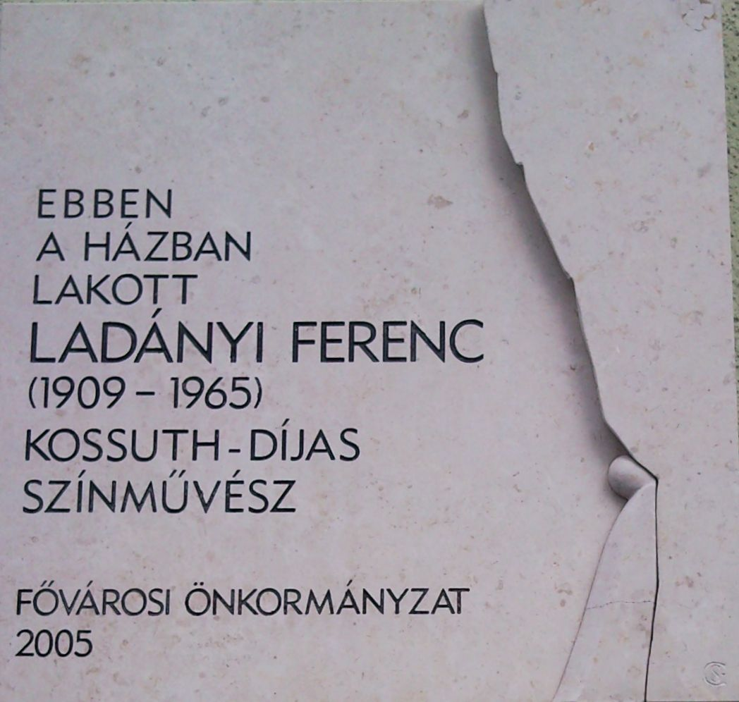 Ferenc Ladányi commemorative plaque in Budapest District XI, Budaörsi Street No 28.